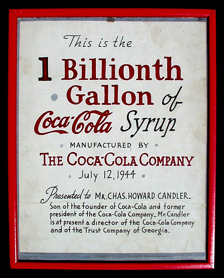 Original artist's drawn graphic in frame measuring 14 1/2" x 11 1/2" which reads as follows: "This is the 1 Billionth Gallon of Coca-Cola Syrup manufactured by The Coca-Cola Company - July 12,1944 - Presented to Mr. Charles Howard Candler. Son of the founder of Coca-Cola and former president of the Coca-Cola Company. Mr. Candler is at present a director of the Coca-Cola a director of the Coca-Cola Company and the Trust Company of Georgia." From the estate of Charles Howard Candler, son of Asa Griggs Candler, the founder of Coca-Cola Company, Atlanta, Georgia. Artifact discovered by Richard Warren Lipack, owner.